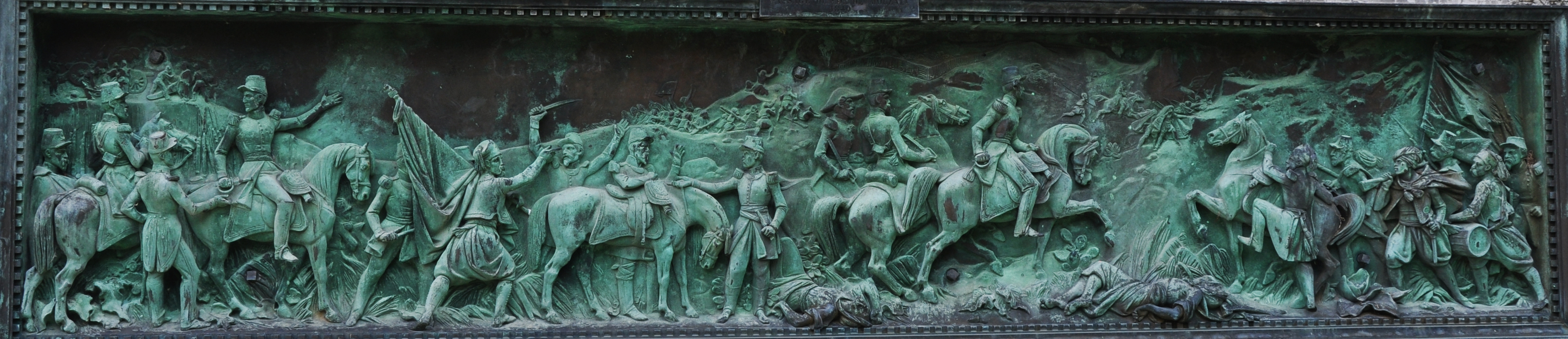 Garden of castle of Eu (France, Noarmandy)